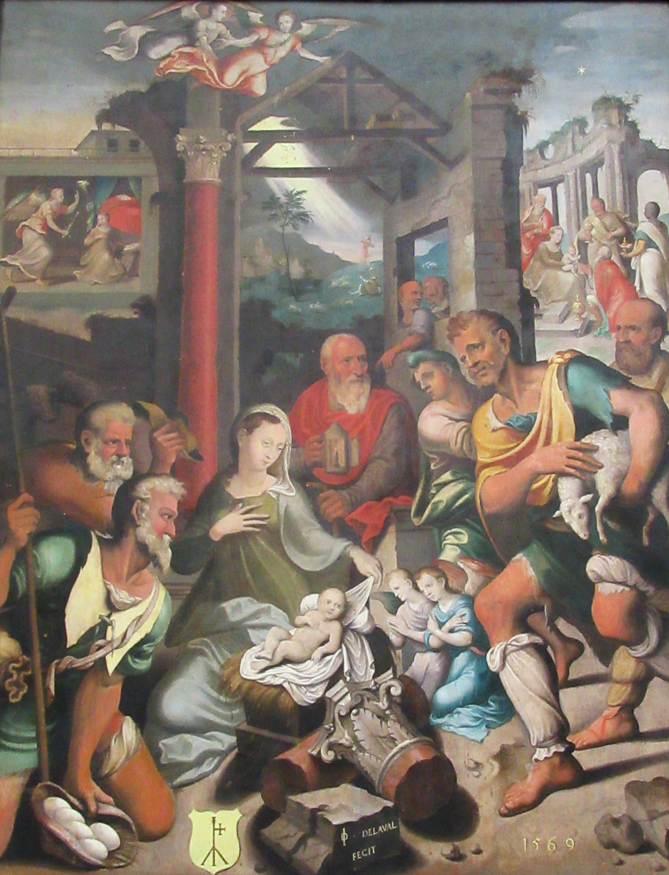 Adoration of the shepherds (1569) by Jost Delaval, in St. Katharinen, Lübeck